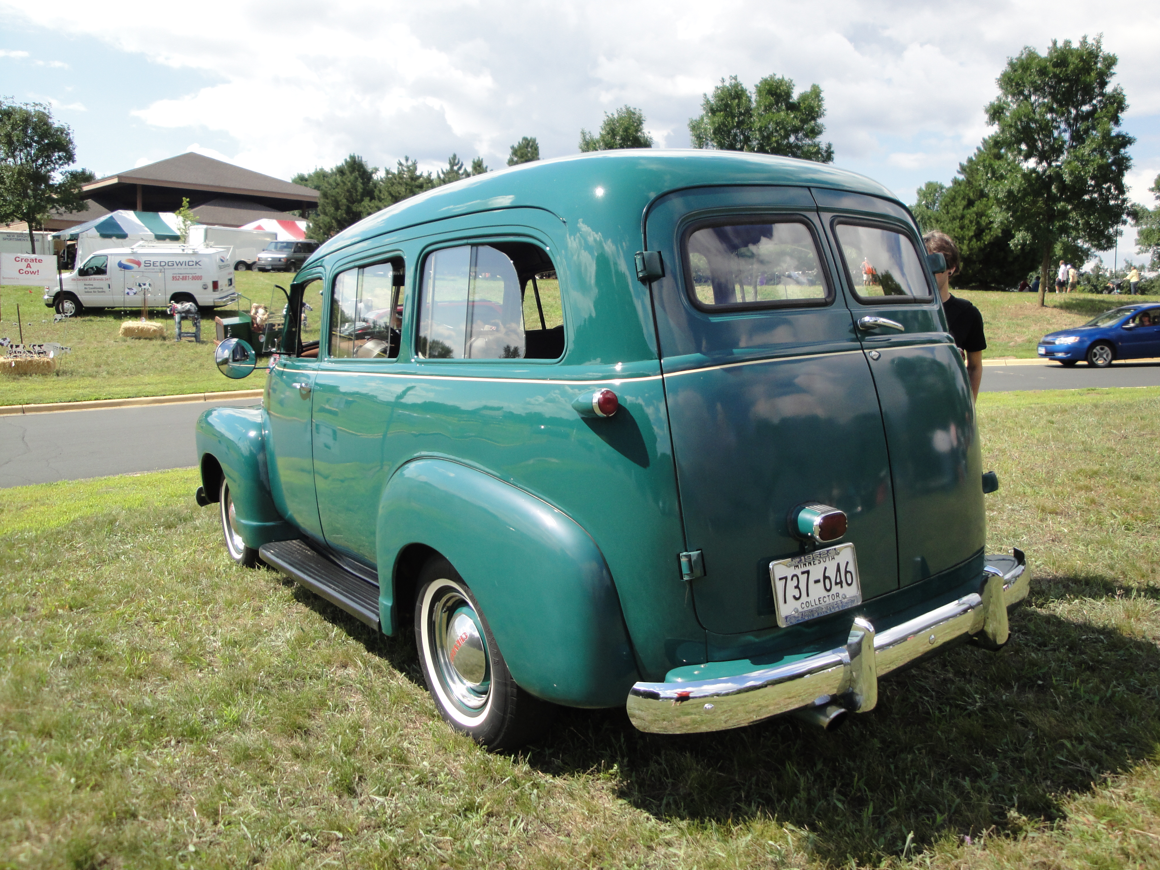 Silver Anniversary New London to New Brighton Antique Car Run Stockyard Days Car Show New Brighton Minnesota